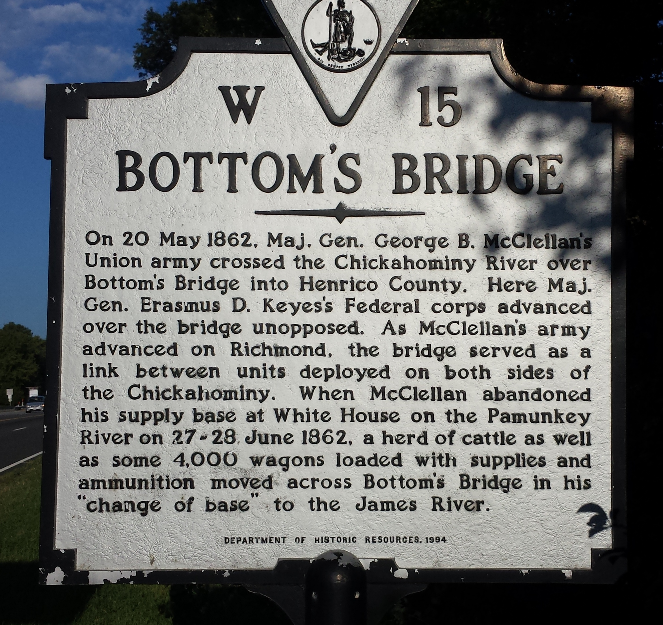 Virginia Historical Marker road sign W 15 located near Chickahominy River on Rte. 60